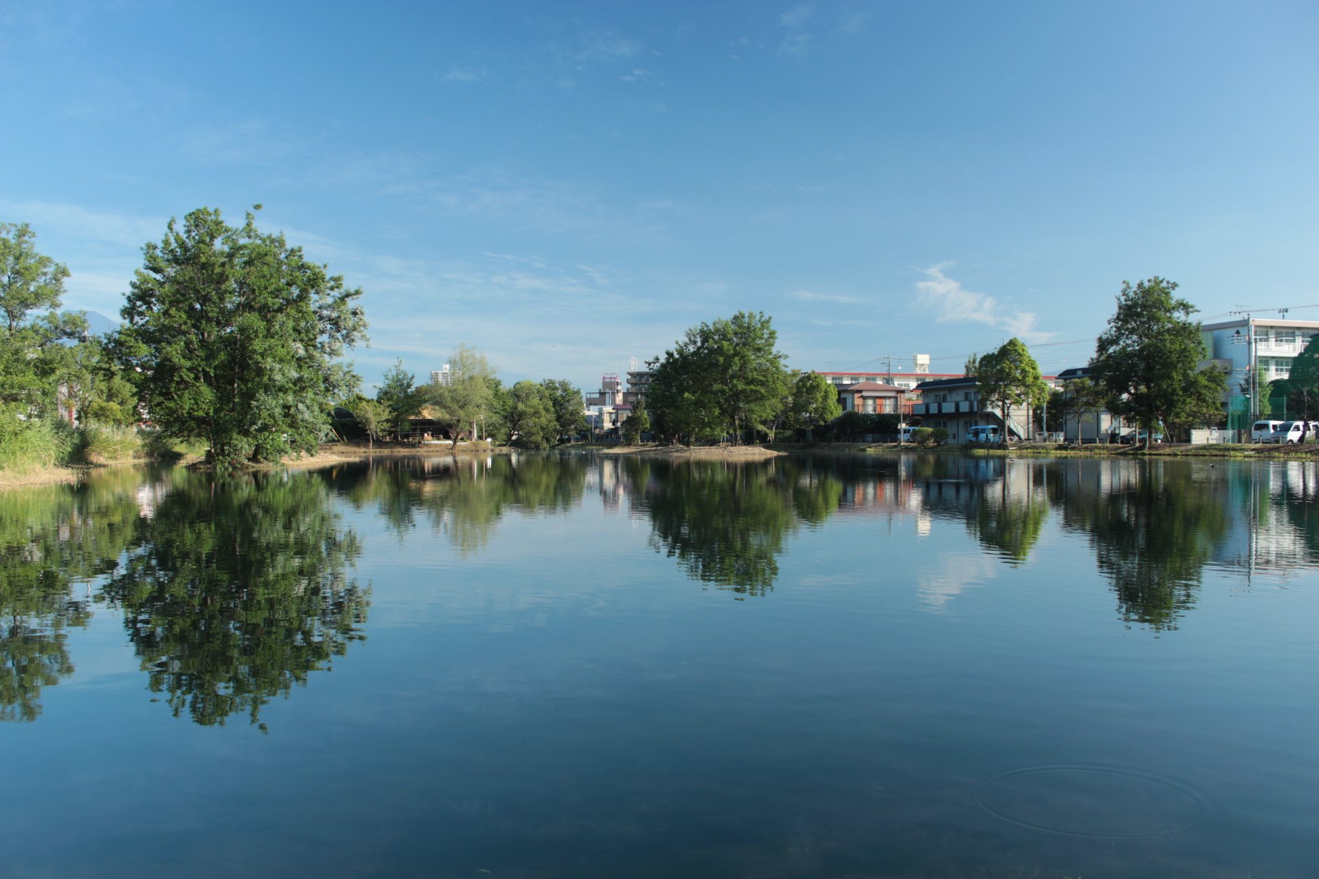 Nakazato Onsuichi (Nakazato Warm Water Pond) in Mishima, Shizuoka Prefecture, Japan.